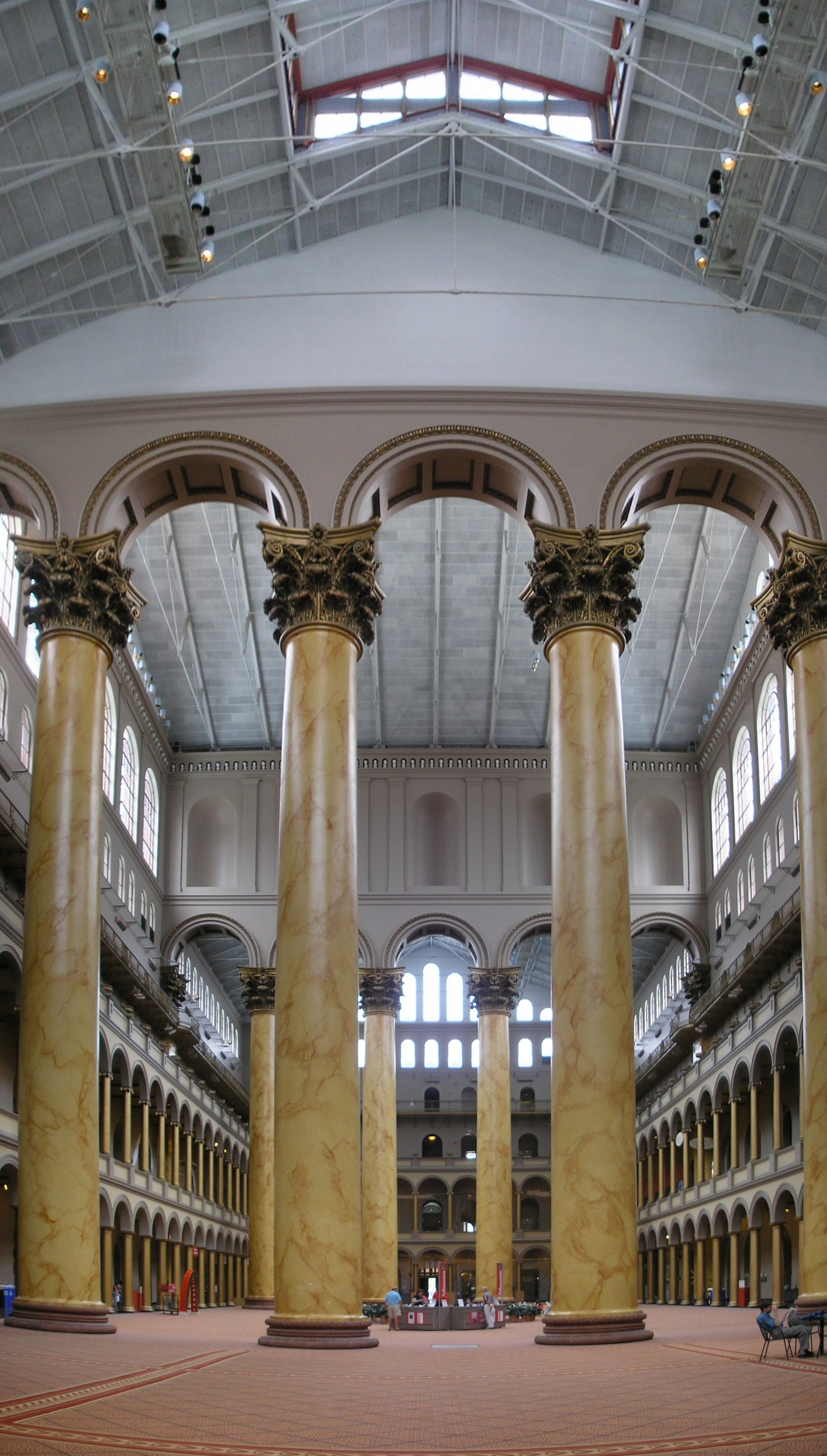 The interior of the National Building Museum in Washington, D.C..